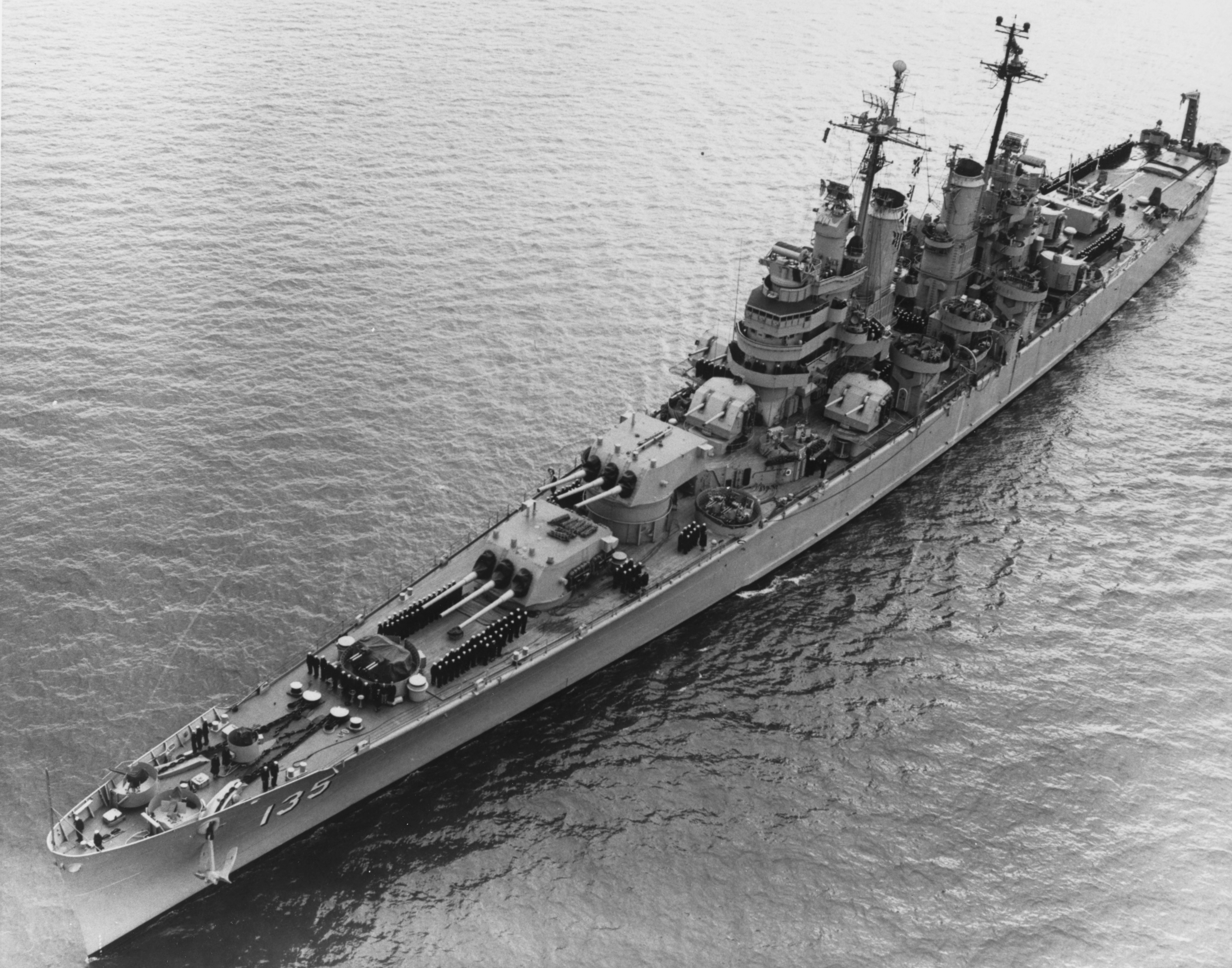 The U.S. Navy heavy cruiser USS Los Angeles (CA-135) underway on 21 March 1951. Los Angeles was recommissioned on 27 January 1951. She sailed for the Far East 14 May and joined naval operations off the eastern coast of Korea on 31 May as flagship for Rear Admiral Arleigh A. Burke's Cruiser Division 5 (CRUDIV 5).